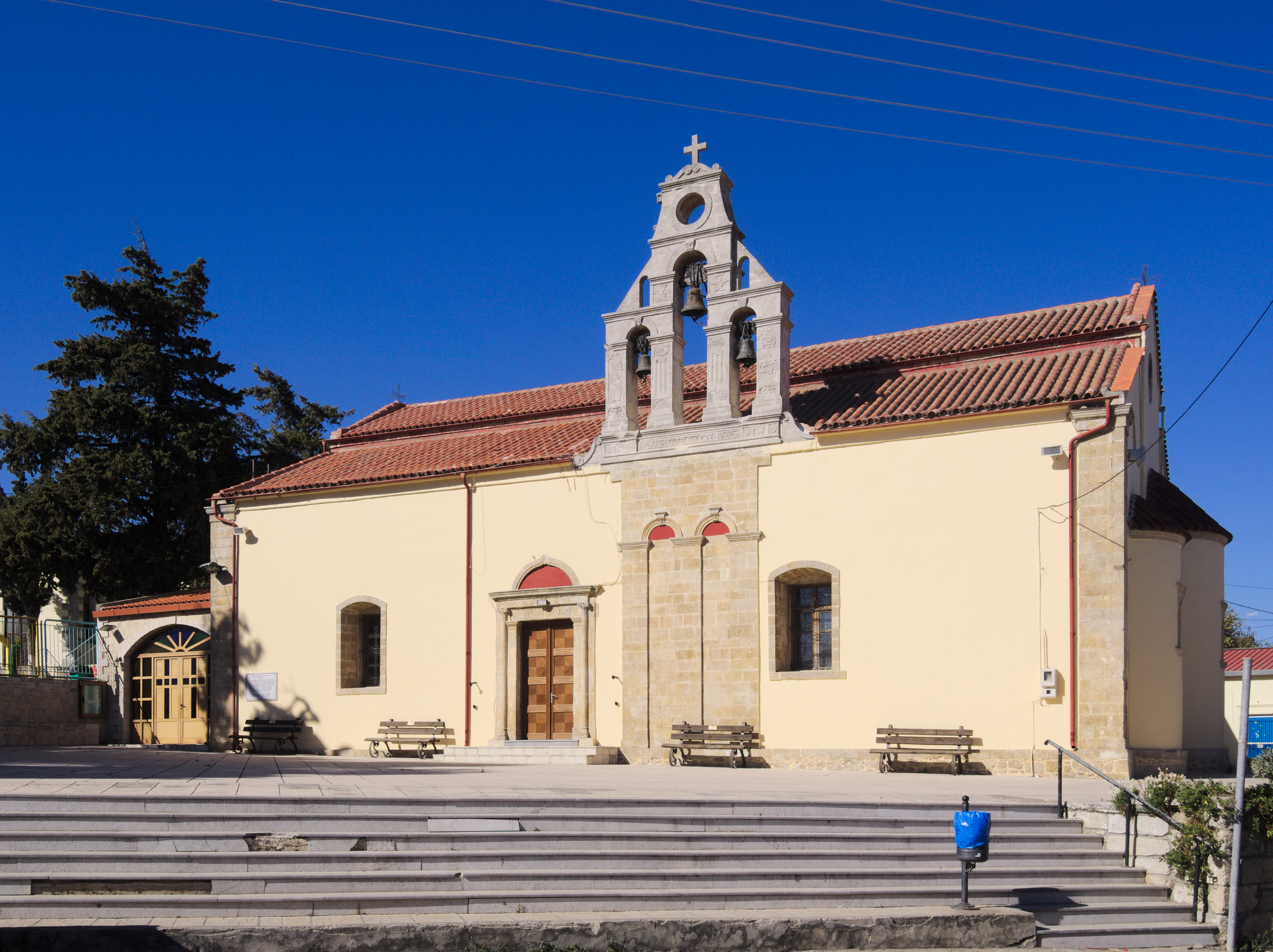 The church of Saint Barbara in Agia Varvara, Gortyna.